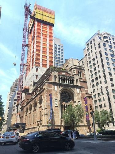 520 Park Avenue under construction, June 2016.